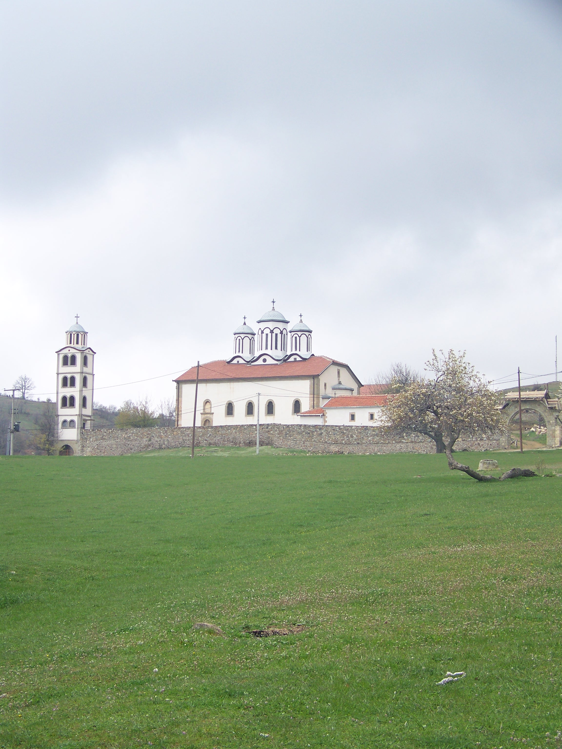 Monastery of St. Pantelimon